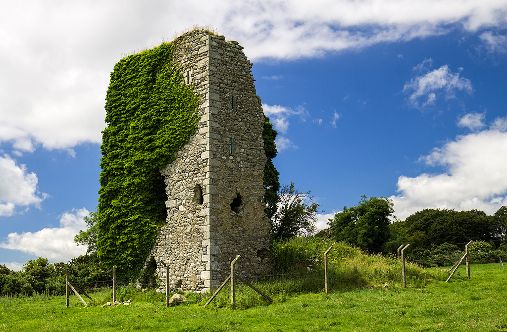 Castles of Leinster: Adamstown, Wexford (1)